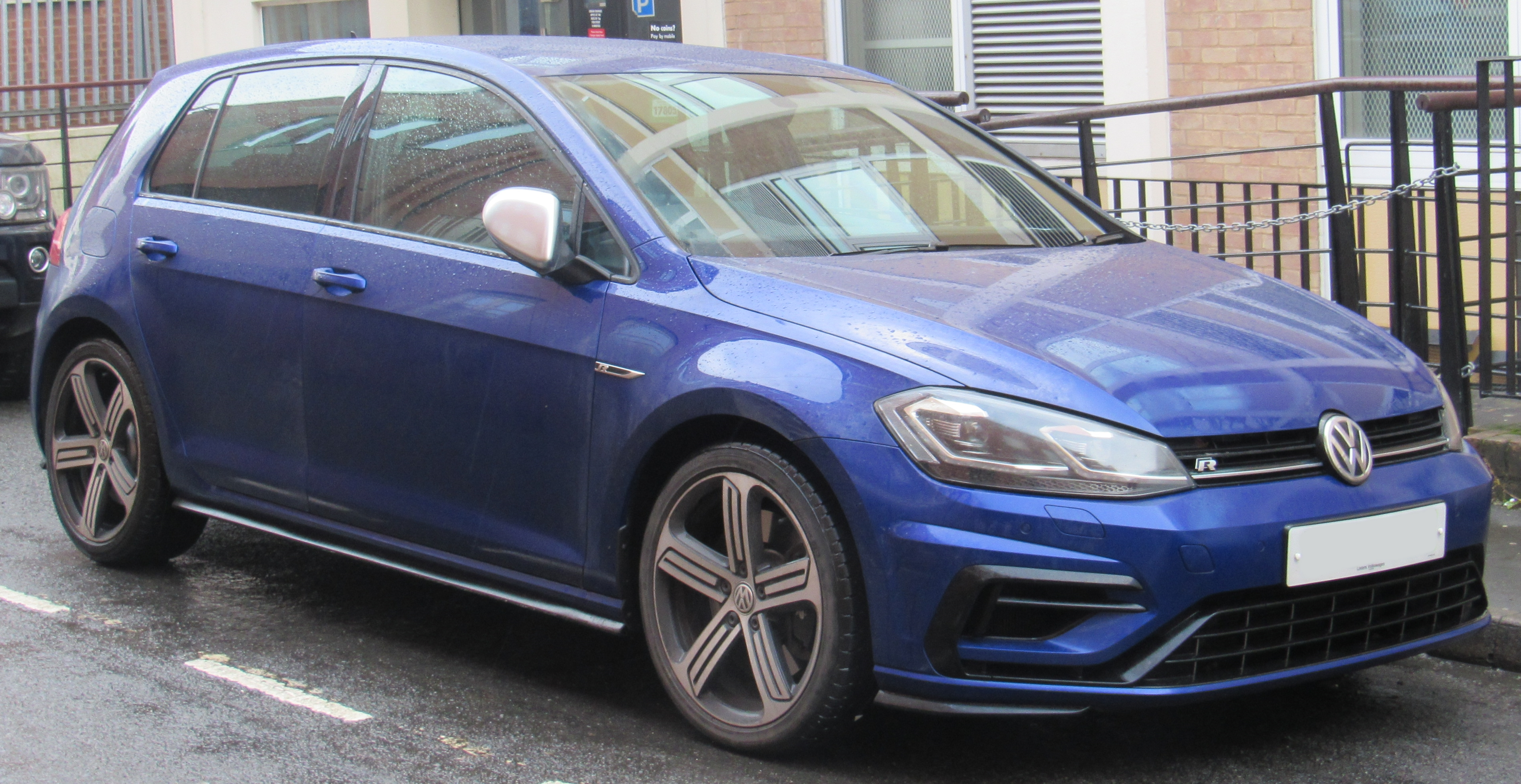 2017 Volkswagen Golf R TSi S-A facelift 2.0 Front